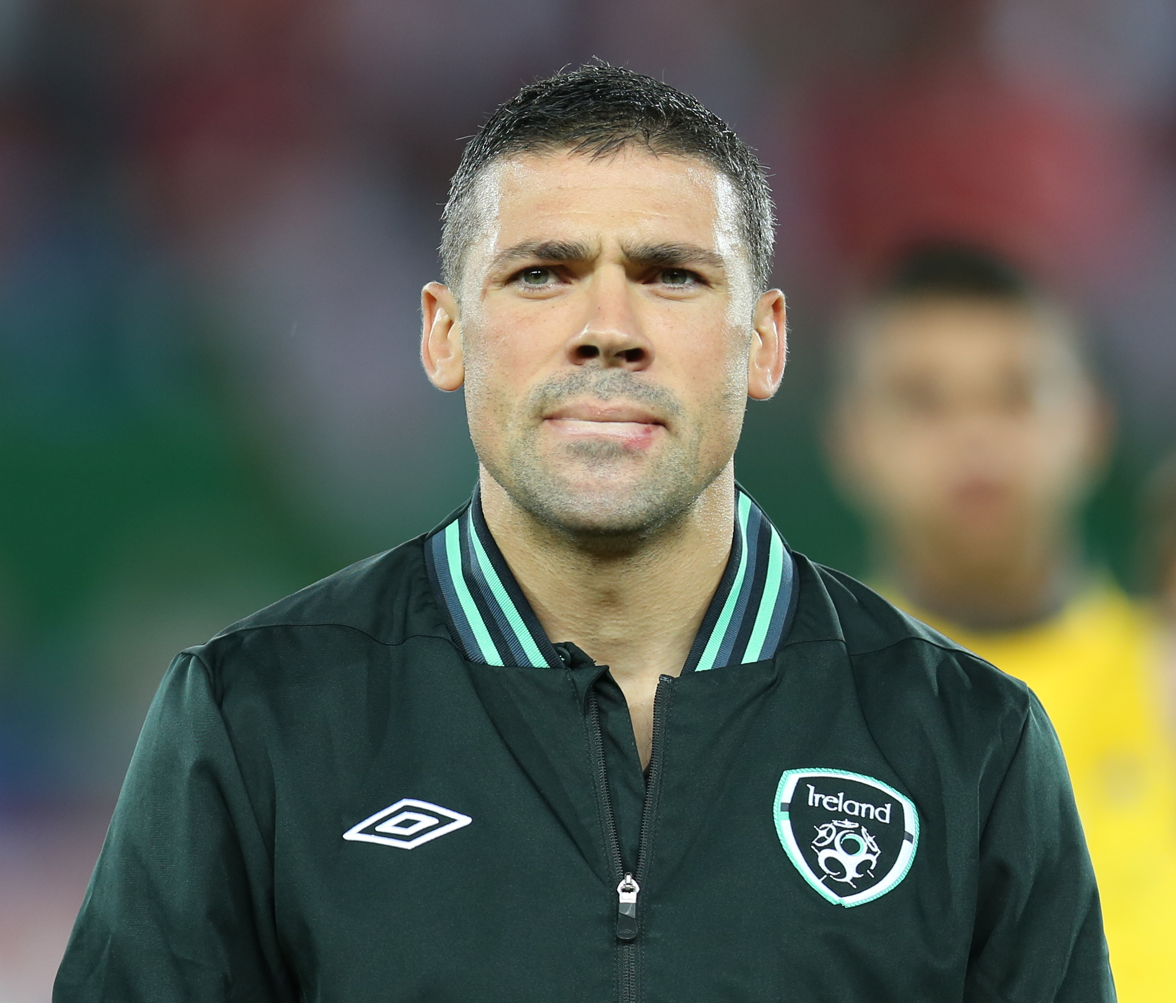 2014 FIFA World Cup qualification (UEFA), Group C: Republic of Ireland national football team at 10. September 2013 before the match against the Austria national football team (0:1) in the Ernst-Happel-Stadion in Vienna. Here:James McClean, Irish winger. The making of this work was supported by Wikimedia Austria. For other files made with the support of Wikimedia Austria, please see the category Supported by Wikimedia Österreich.